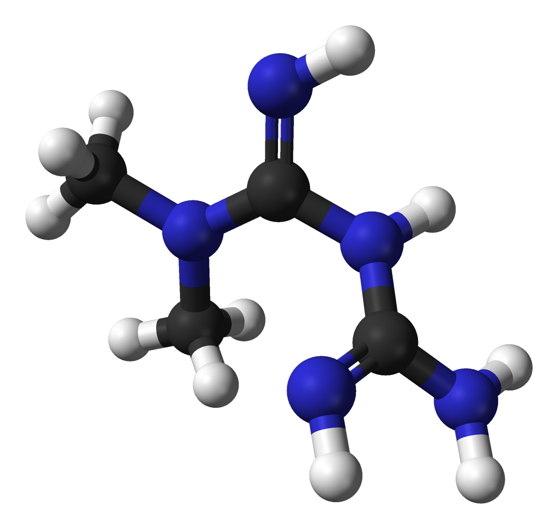 Ball-and-stick model of the metformin molecule, C4H11N5. X-ray crystallographic data from M. Hariharan, S. S. Rajan and R. Srinivasan (June 1989). "Structure of metformin hydrochloride". Acta Cryst. C45 (6): 911-913. Image generated in Accelrys DS Visualizer.